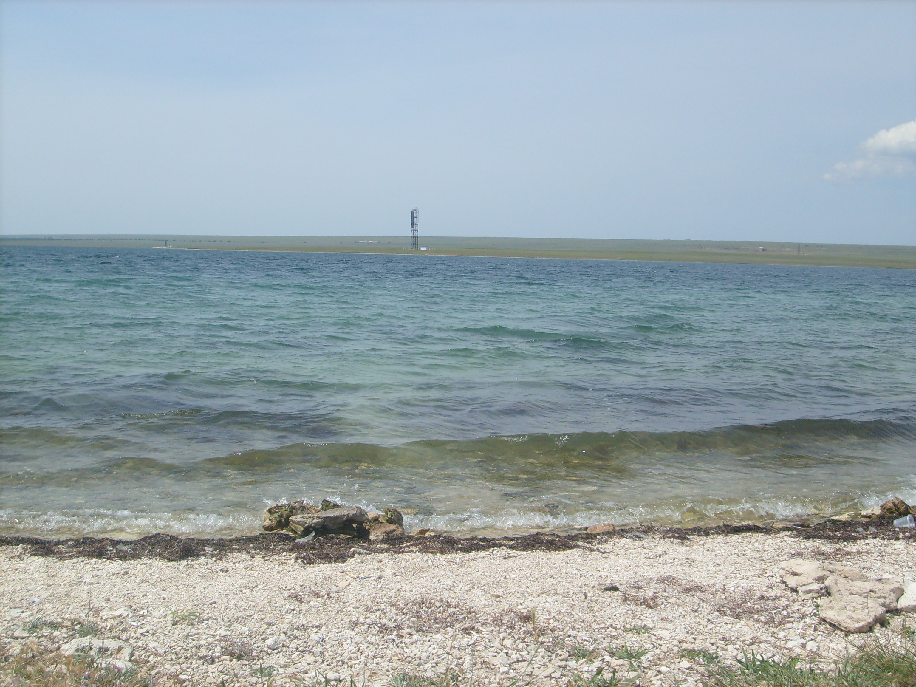 Novoozerno